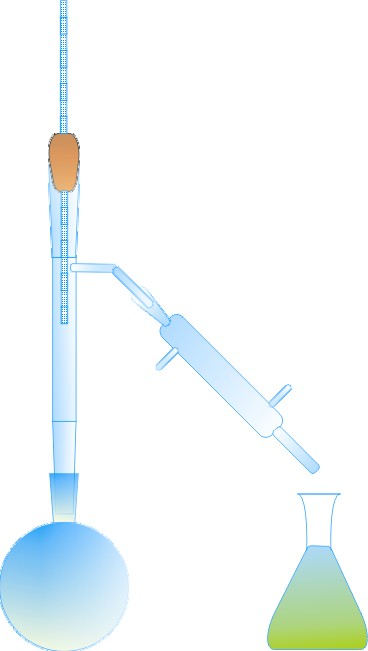 Chemistry